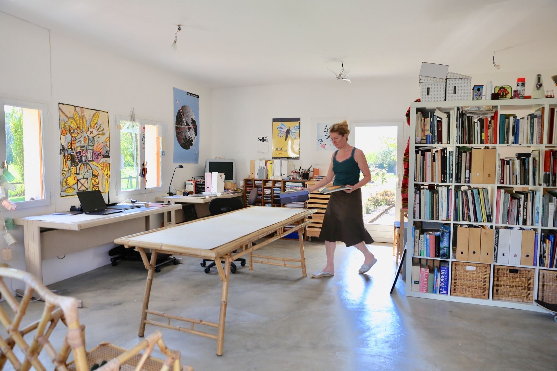 Graphical artist Amanda Wärff in her studio in Burgundy, France